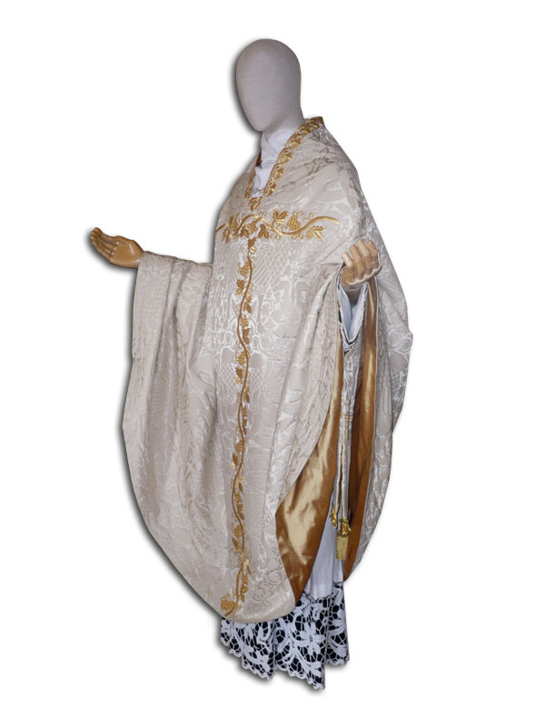 Bell-shaped medieval chasuble. Modelled according to an original (12th century) conserved by the Abegg foundation. The chasuble's circumference is 492 cm, its diameter 310 cm.